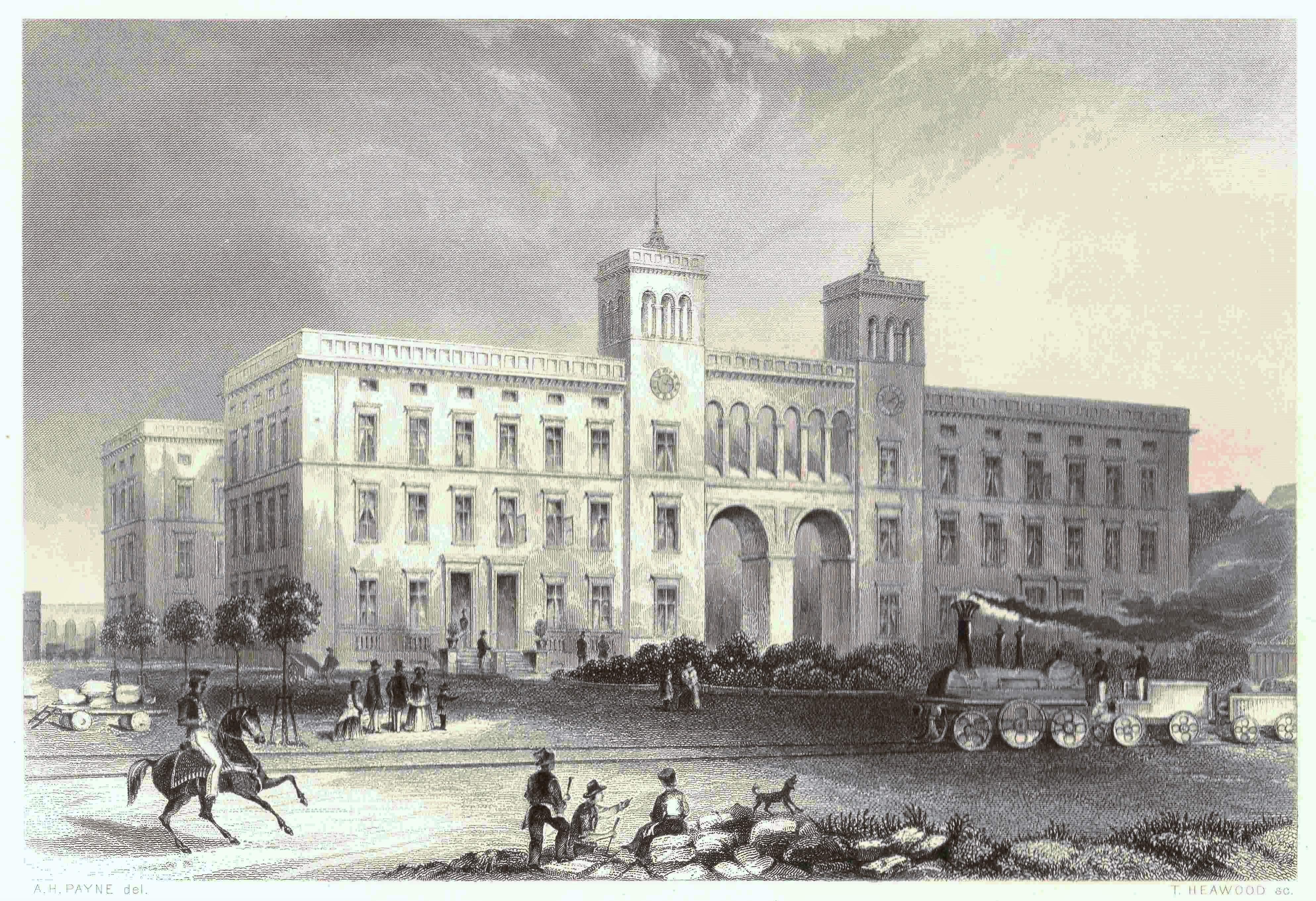 Hamburger Bahnhof ("Hamburg Station") in Berlin. The railway station was put out of service in 1884 after only 37 years and has been used as a museum ever since 1906. Nowadays it houses the Museum for Contemporary Arts.